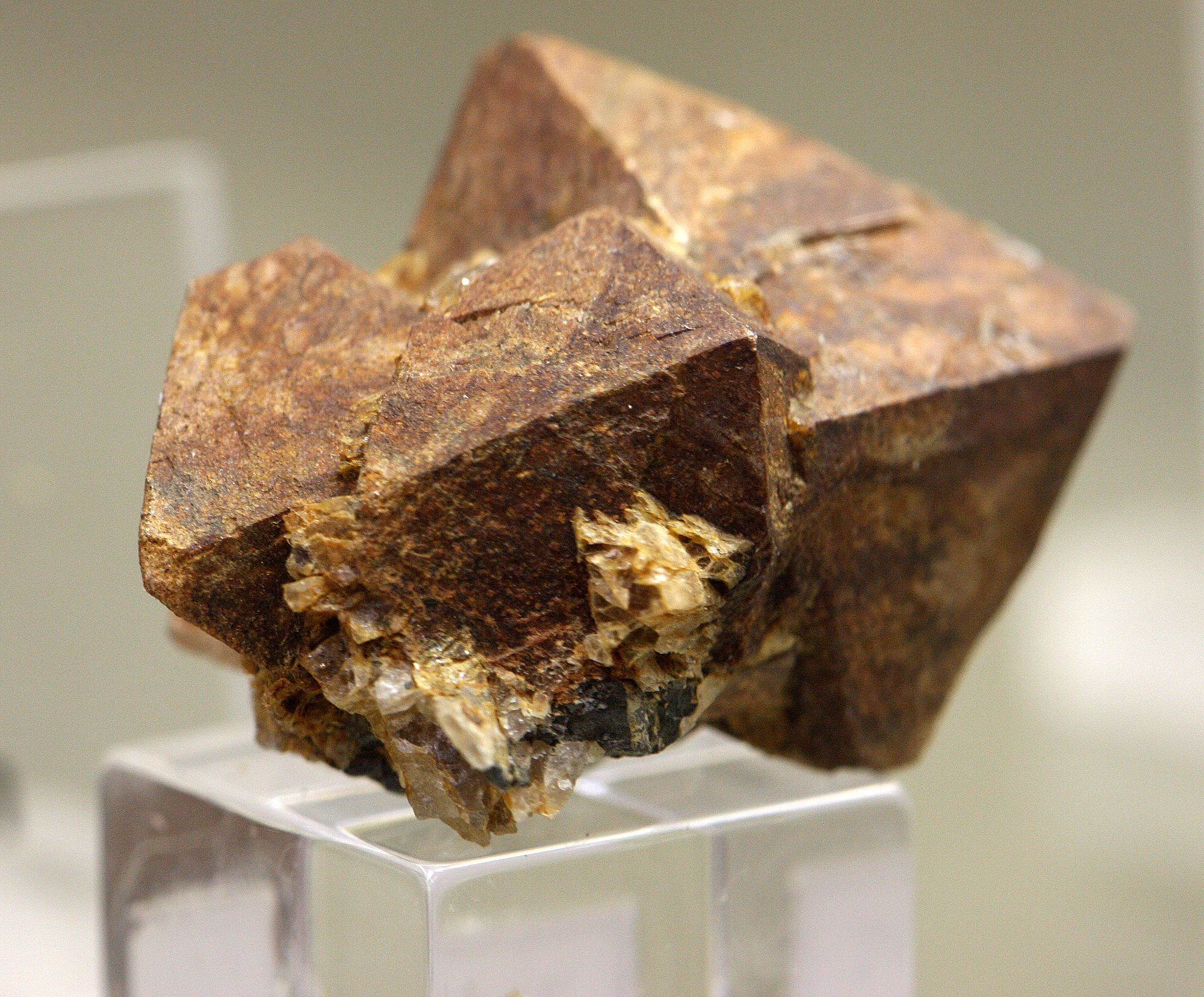 Xenotime - Locality: Hitterö, Norway - Exposed in the Mineralogical Museum, Bonn, Germany